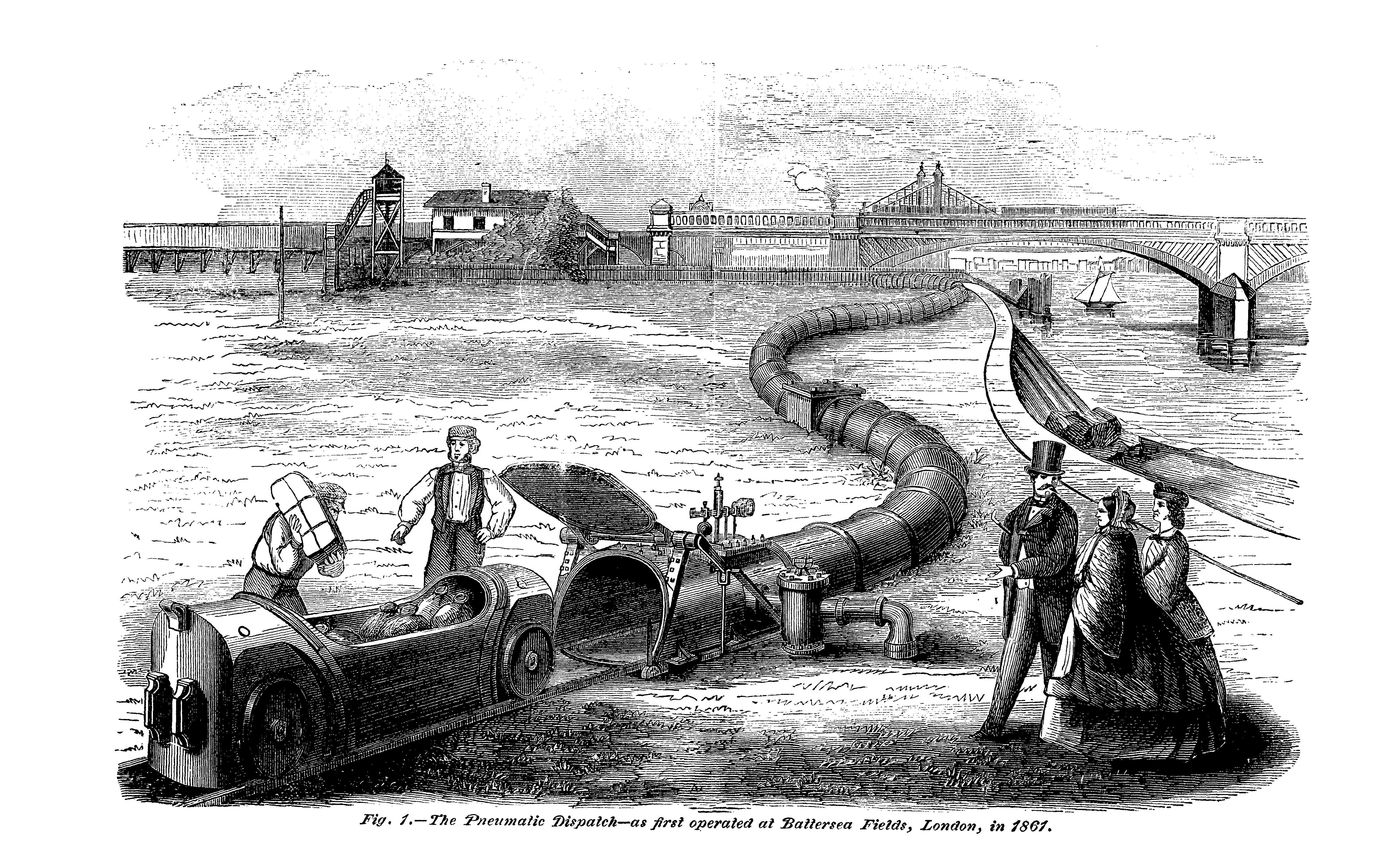 Testing the London Pneumatic Desptach at Battersea